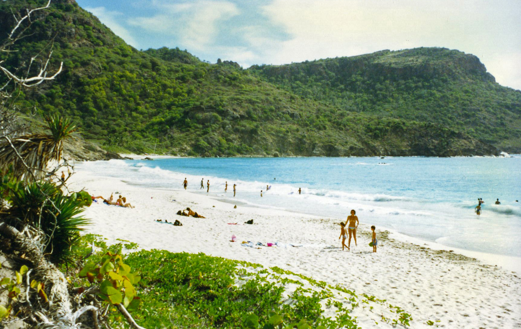 Beach at the Anse de Grande Saline on St. Barthelemy, French West Indies